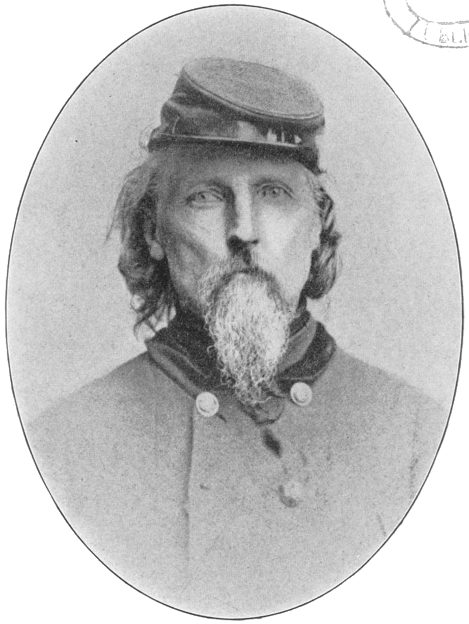 Black and white photographic head portrait of Colonel Friedrich Hecker in oval frame.